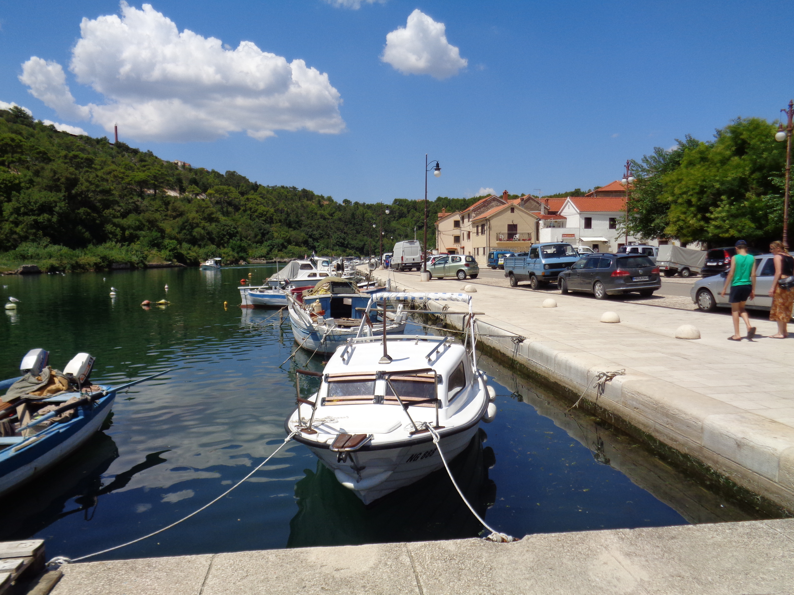 Novigrad (=New Town), Zadar County, Dalmatia Region, Republic of Croatia - waterfront promenade